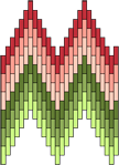 I (Elizabeth Pyatt) made this image on Omni Graffle. Copyright Elizabeth Pyatt, 2006 (see license below)